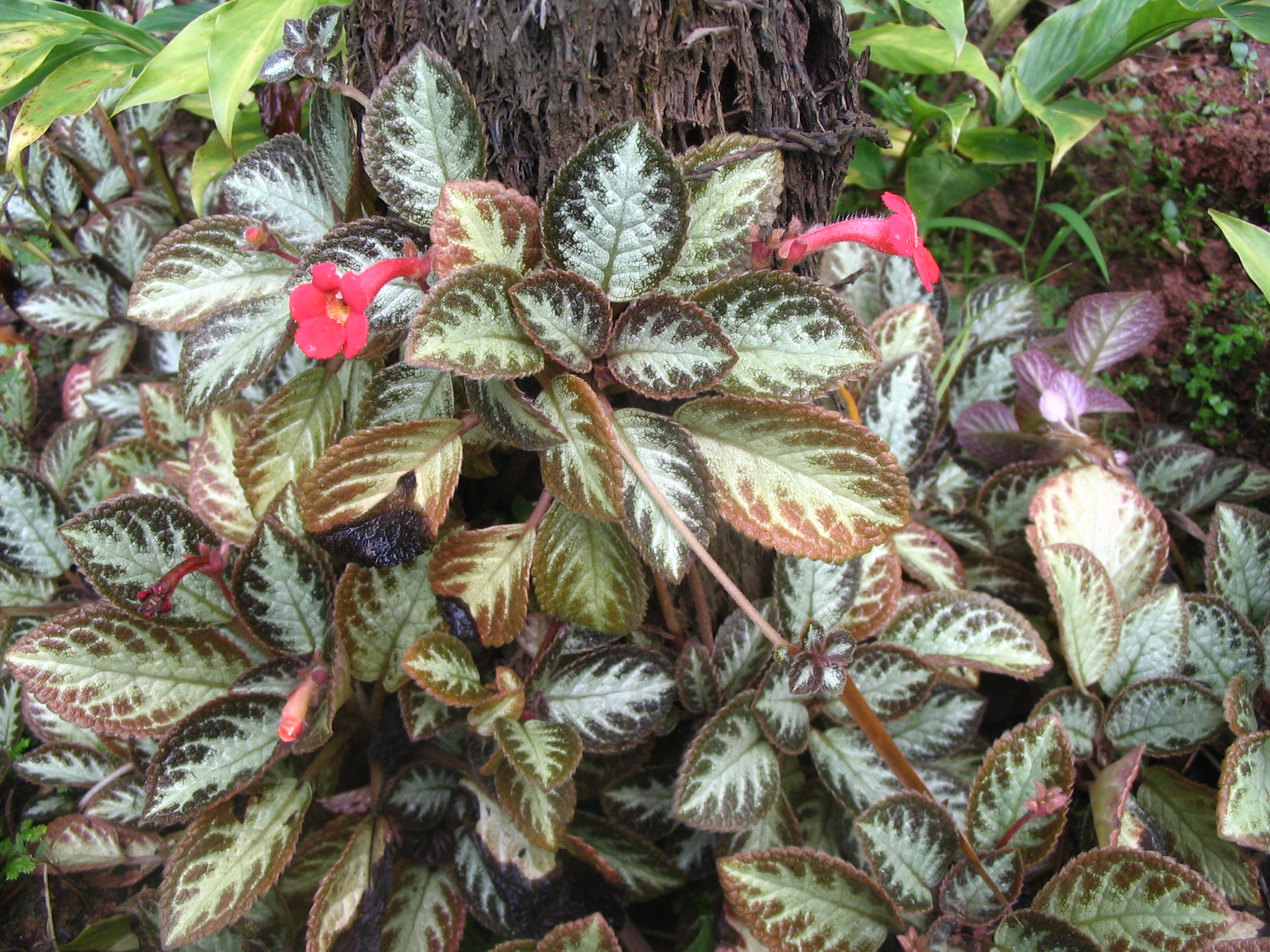 Episcia_cupreata